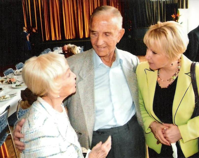 Monismanienpris Photo with Margot Wallström Kenne Fant and his wife